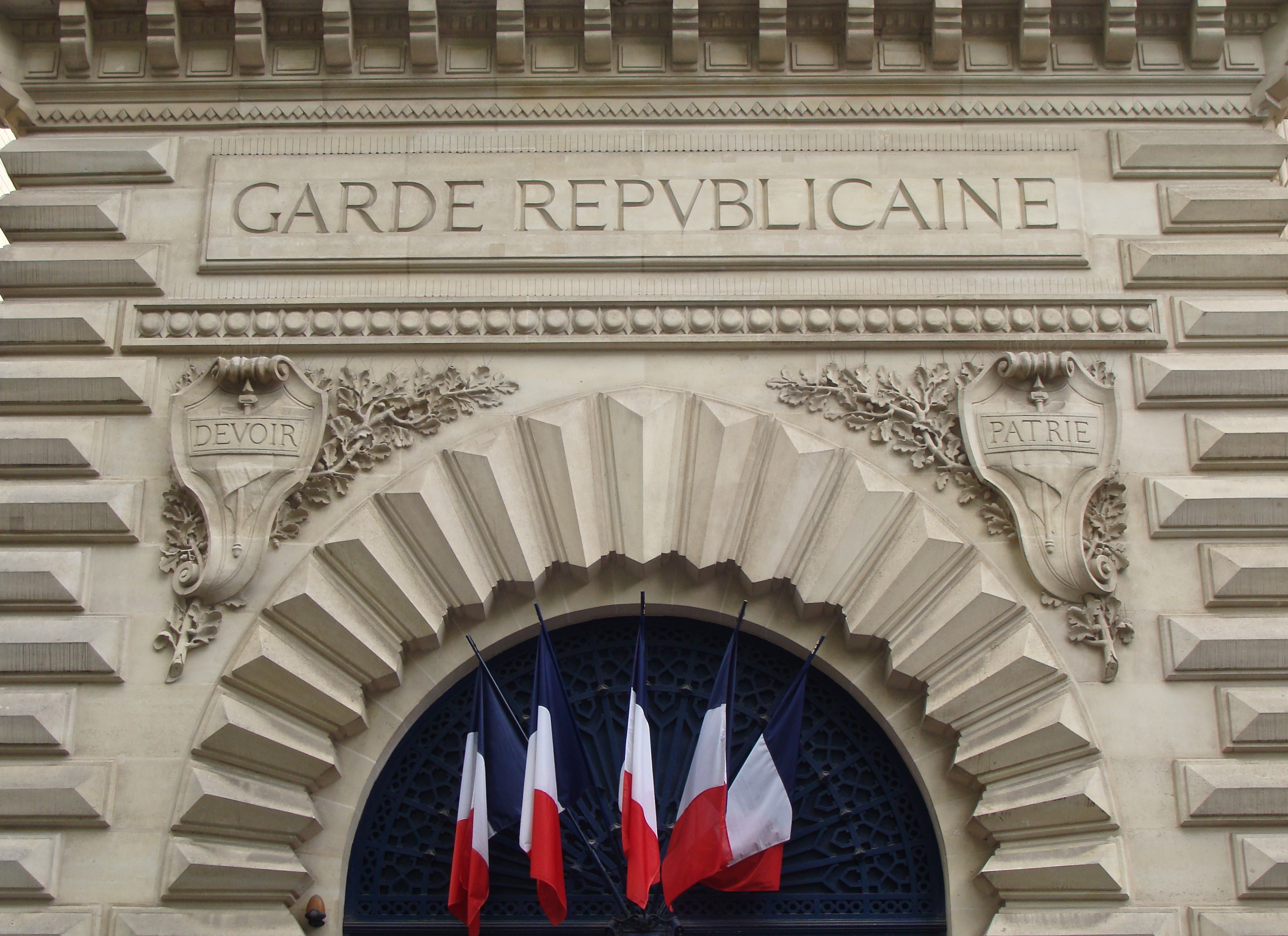 The entry arch of the caserne of the Place Monge in Paris